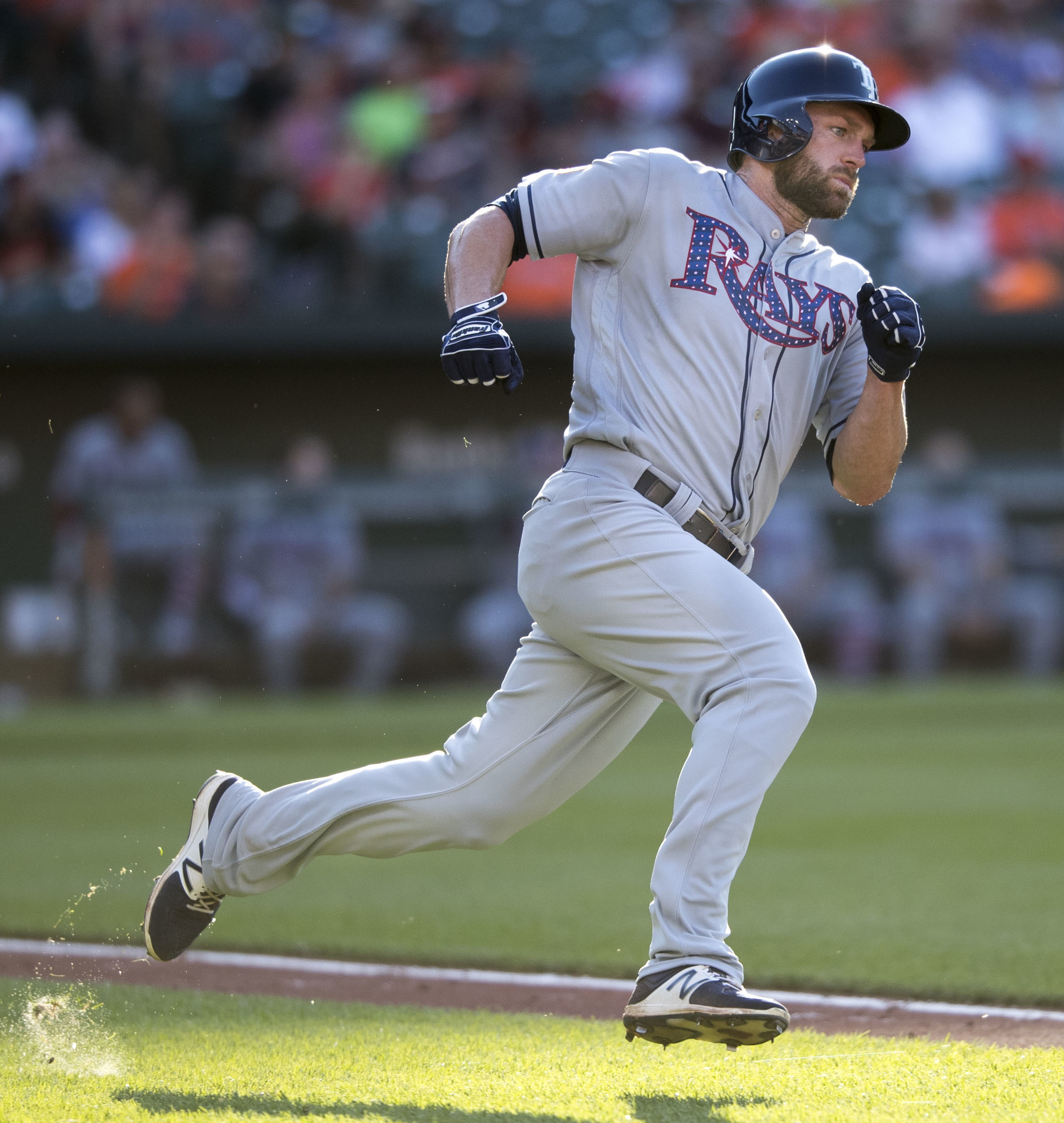 Rays at Orioles 7/1/17